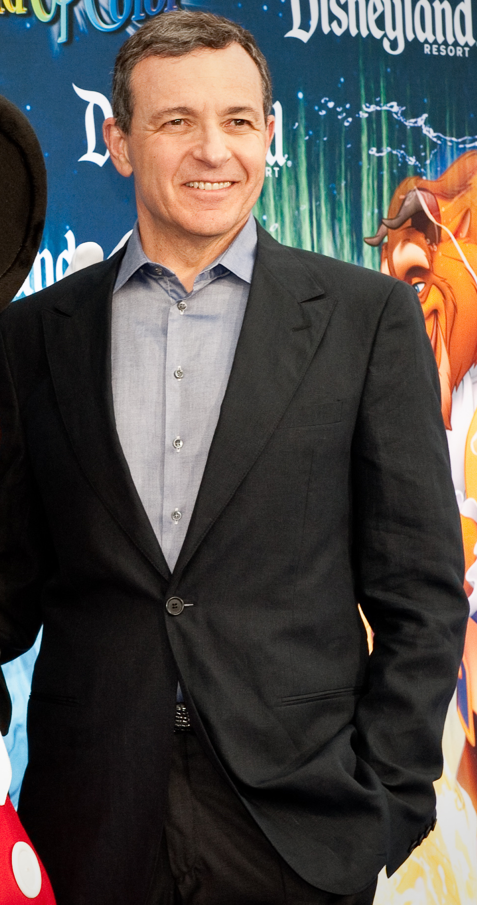 Bob Iger at the World of Color Premiere Disney California Adventure